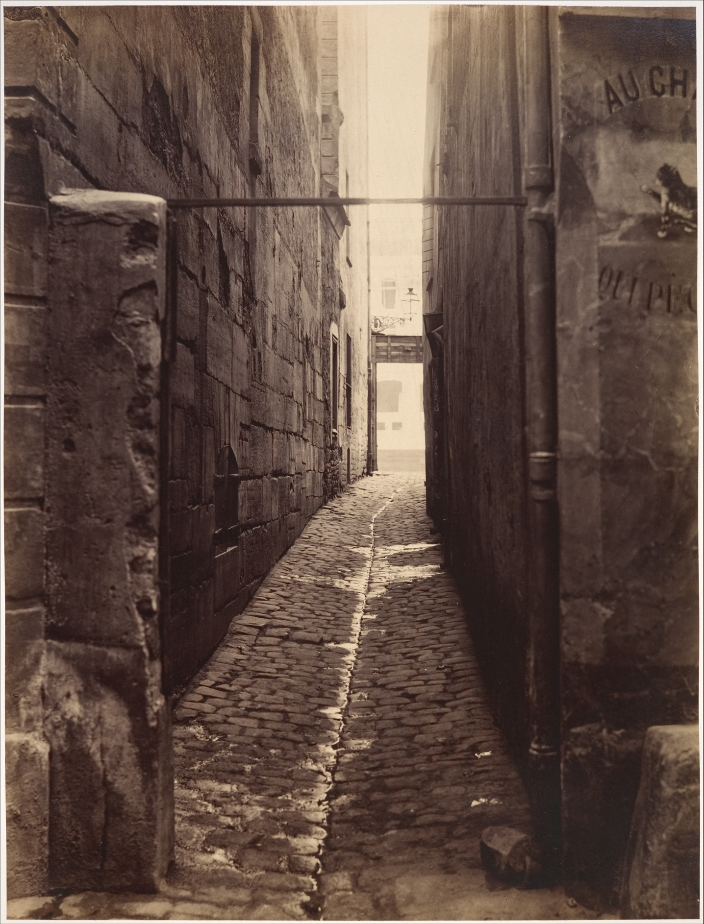 Rue du Chat-qui-Pêche (from the Rue de la Huchette)